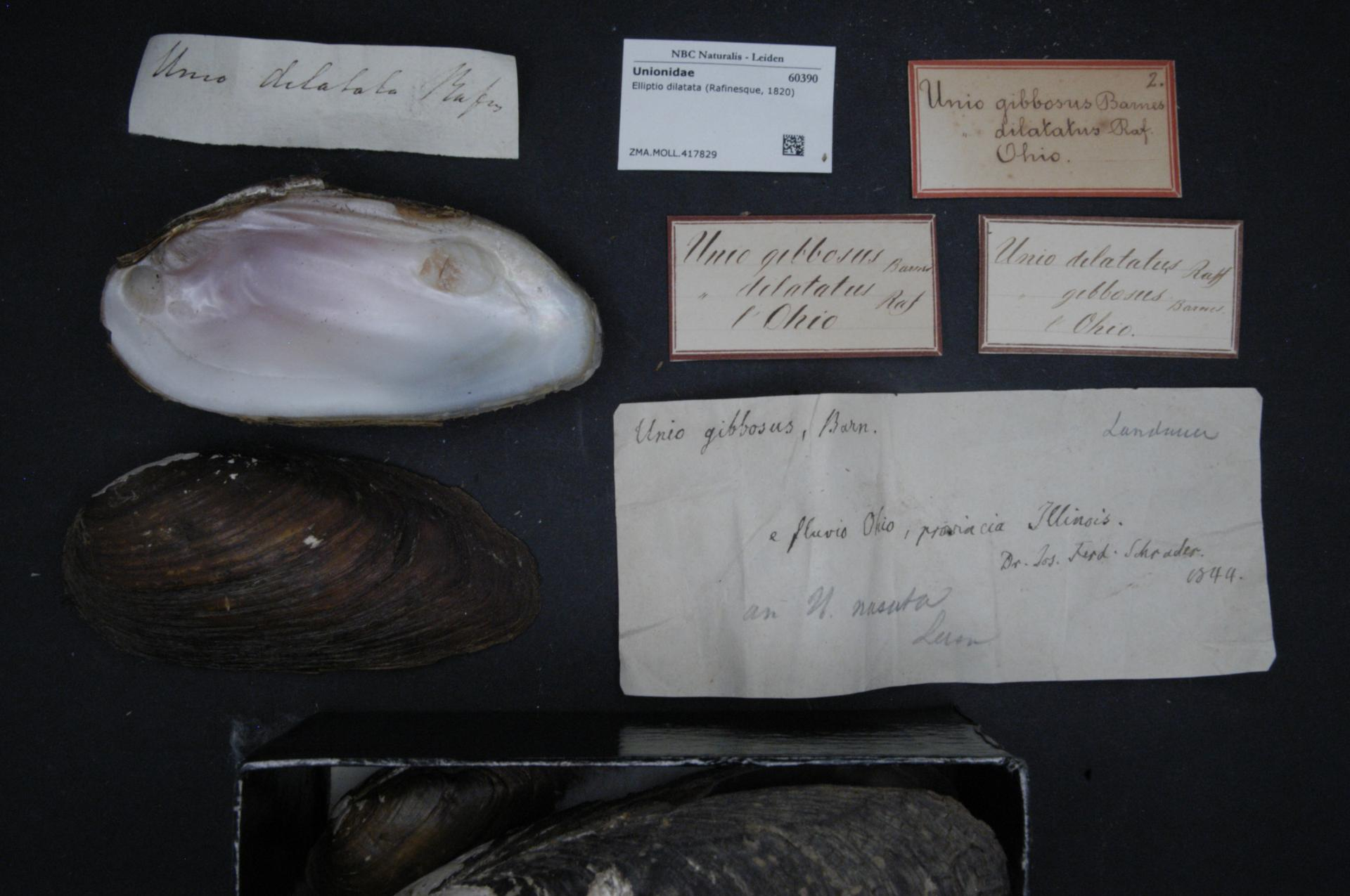 Elliptio dilatata (Rafinesque, 1820). Phylum class family subfamily Mollusca Bivalvia Unionidae Ambleminae. Naturalis ZMA.MOLL.417829